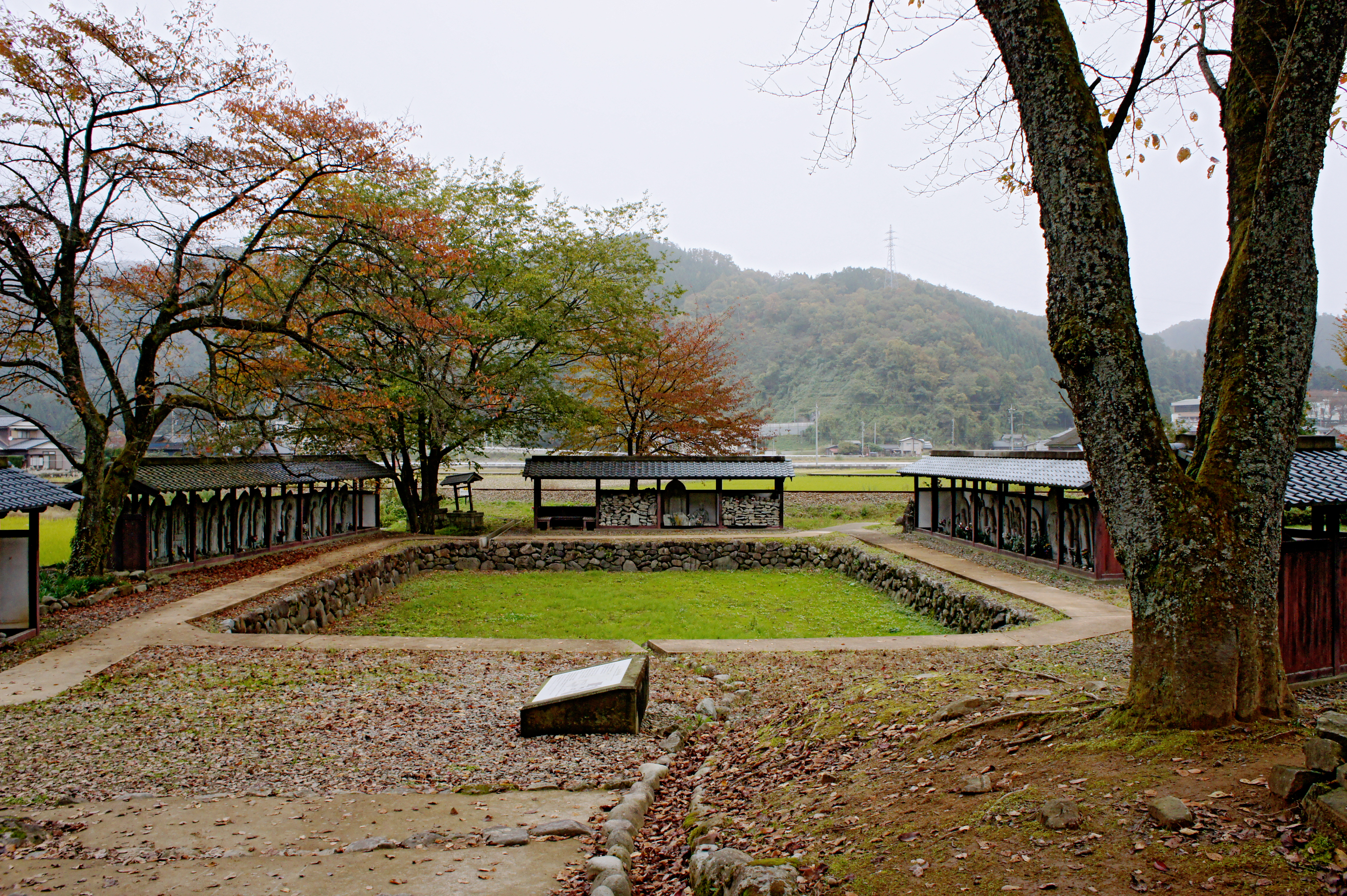 Nishiyamakoshoji-ato of Ichijōdani Asakura Family Historic Ruins in Fukui, Fukui prefecture, Japan.